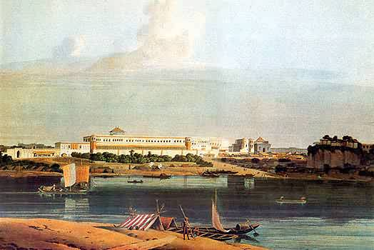 Palace of Nawab Shuja-ud-Daula at Lucknow, an aquatint made by Thomas Daniell and William Daniell in the late eighteenth century.